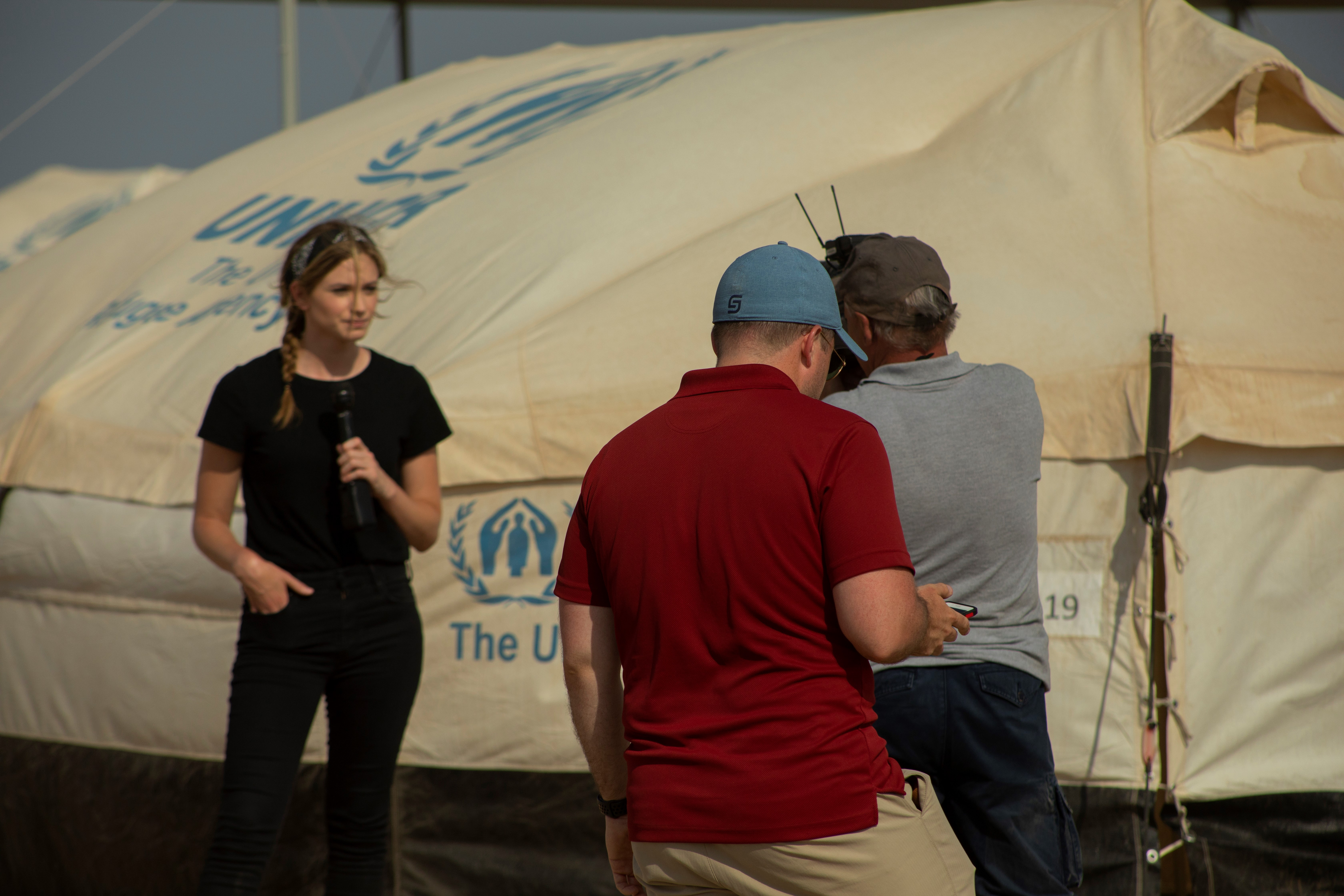 Photo of Fox News correspondent Ellison Barber and her crew while they were covering the political and humanitarian crisis in Colombia.